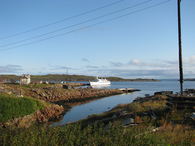 Klavdiya Yelanskaya in Gremikha